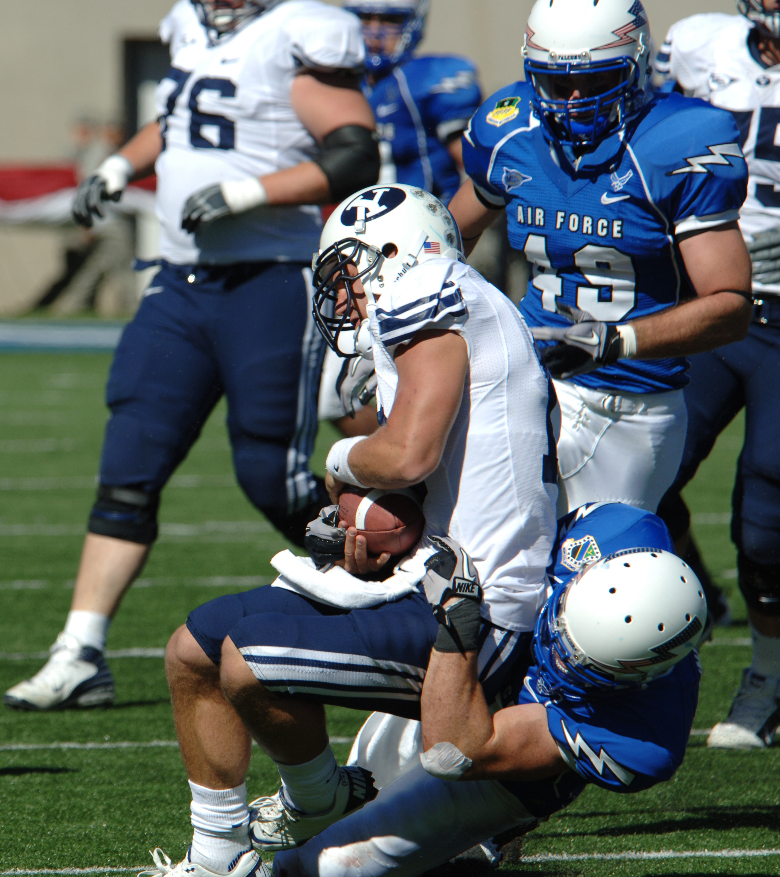 Falcons defensive back Brian Lindsay sacks Cougars quarterback Ricky Nelson for an 8-yard loss after after Nelson fumbled a snap in BYU's final possession of the first half of the Air-Force BYU game at Falcon Stadium. The Falcons won 35-14.